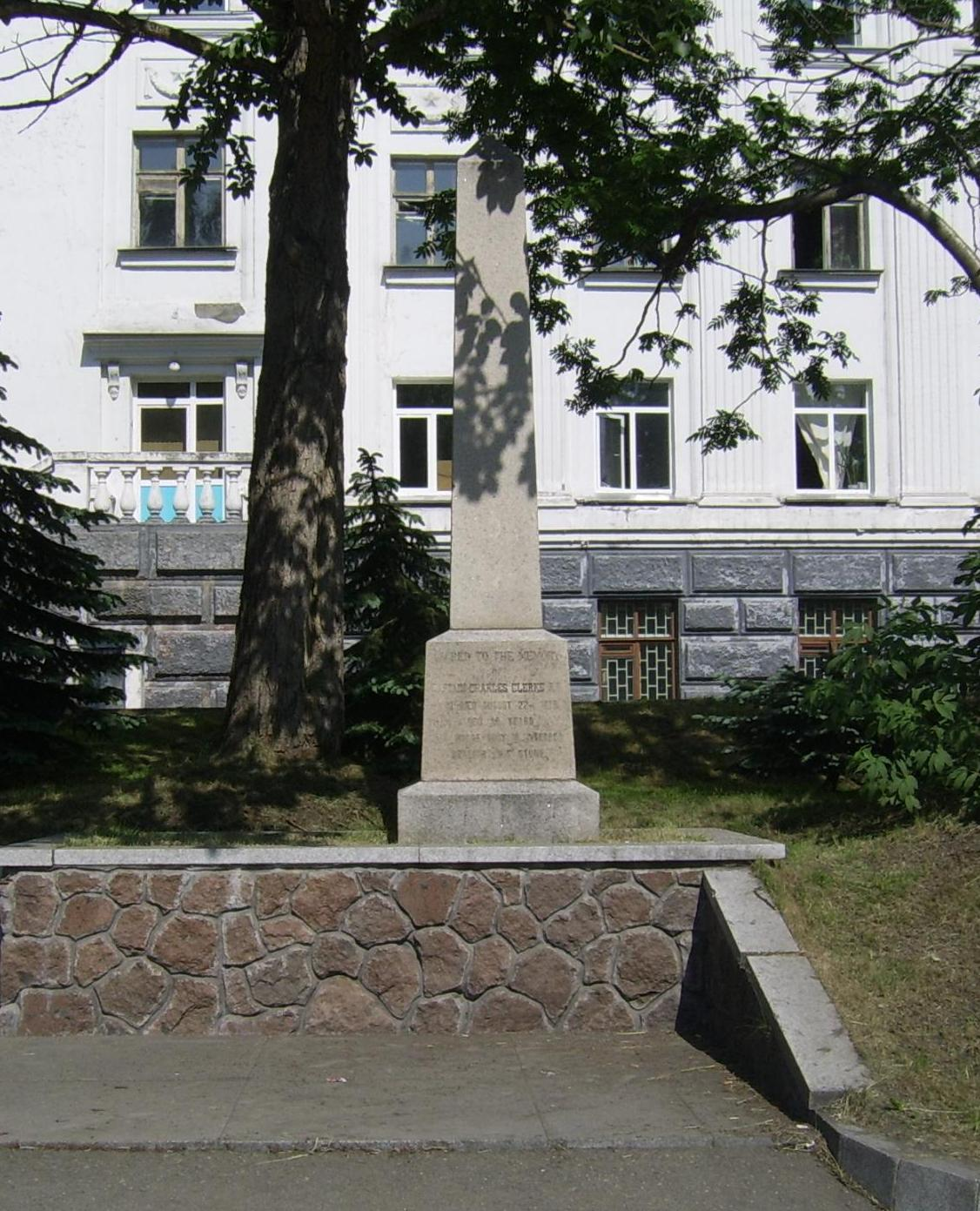 Charles Clerke's obelisk in Petropavlovsk-Kamchatskiy